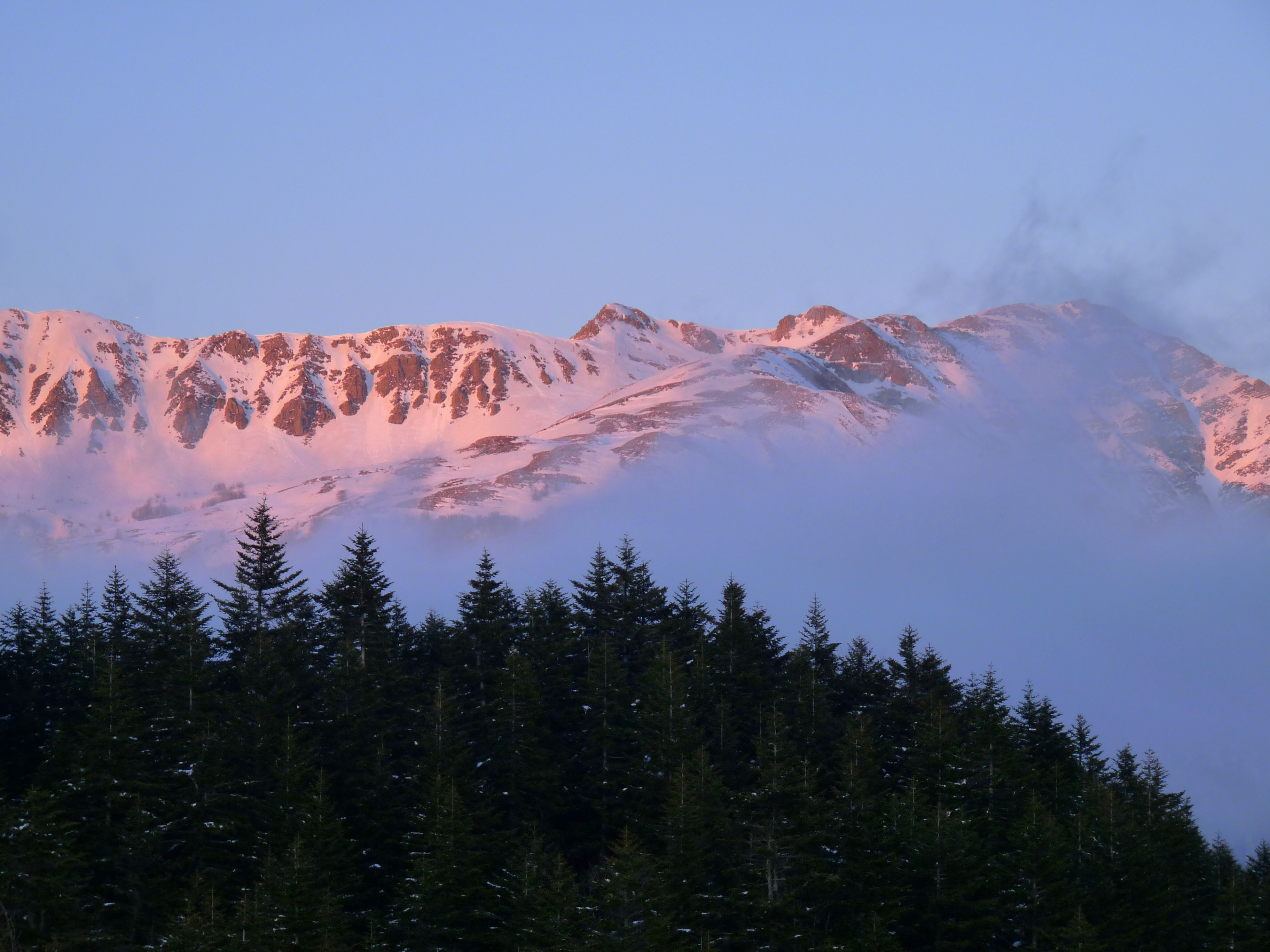 View of mountains in the municipality of Abetone, Pistoia, Tuscany, Italy